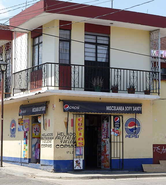 A Miscelanea, a type of family-run convenience store, in Xalatlaco, Oaxaca de Juarez, Mexico. The family typically lives on the 2nd floor and operates the store on their first floor.